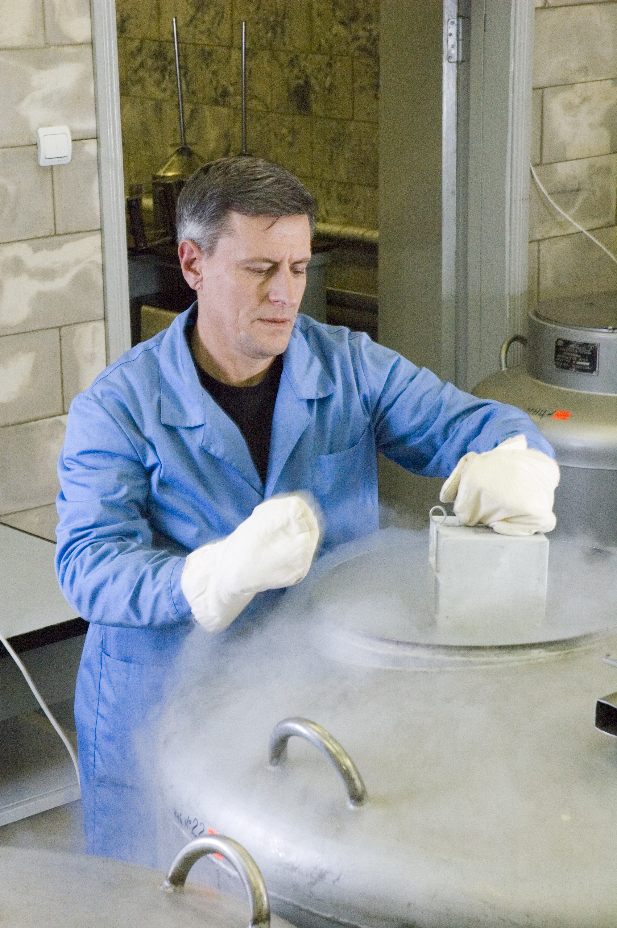 Low temperature bank1